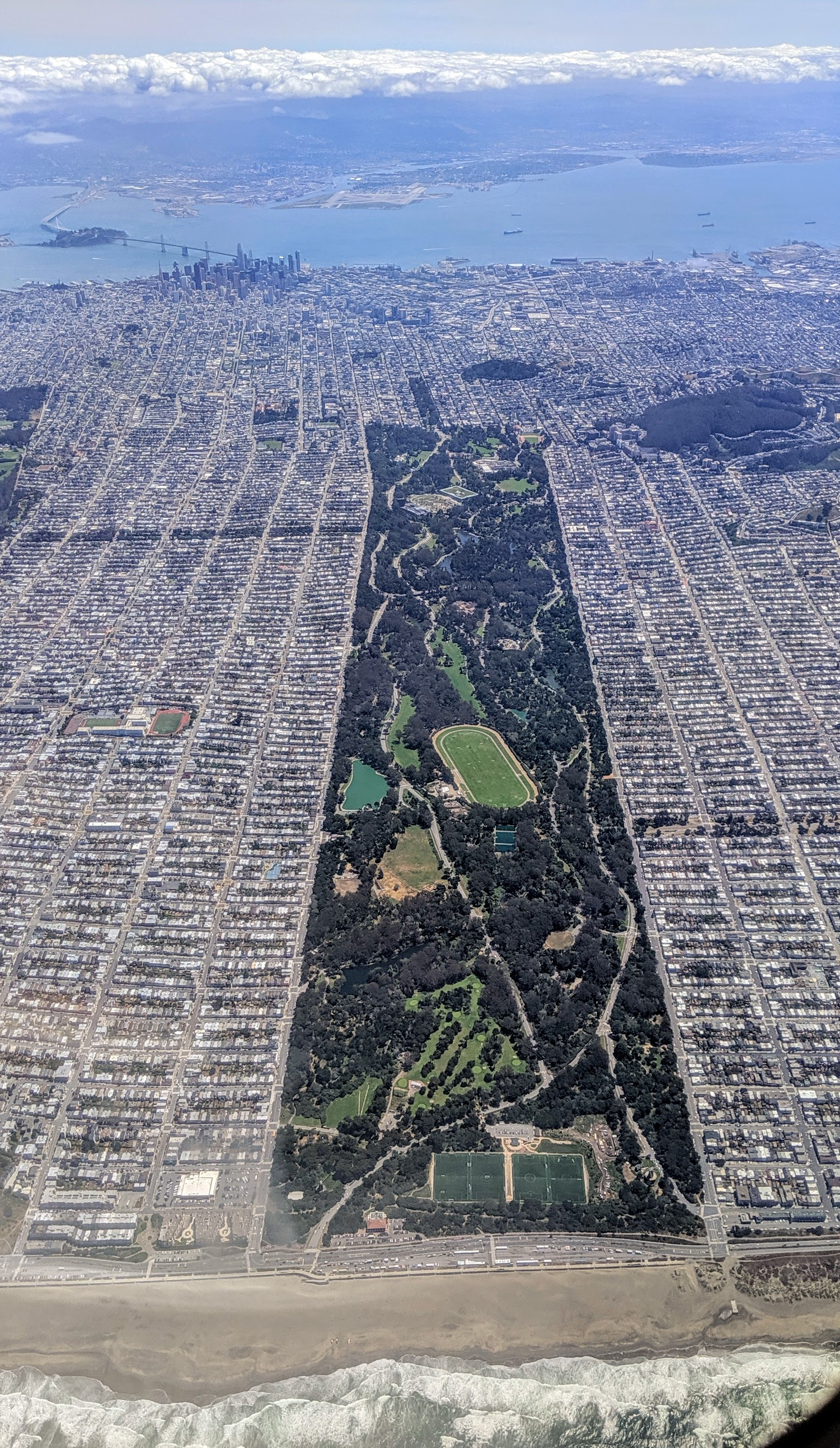 Aerial view from the west of Golden Gate Park, San Francisco, California